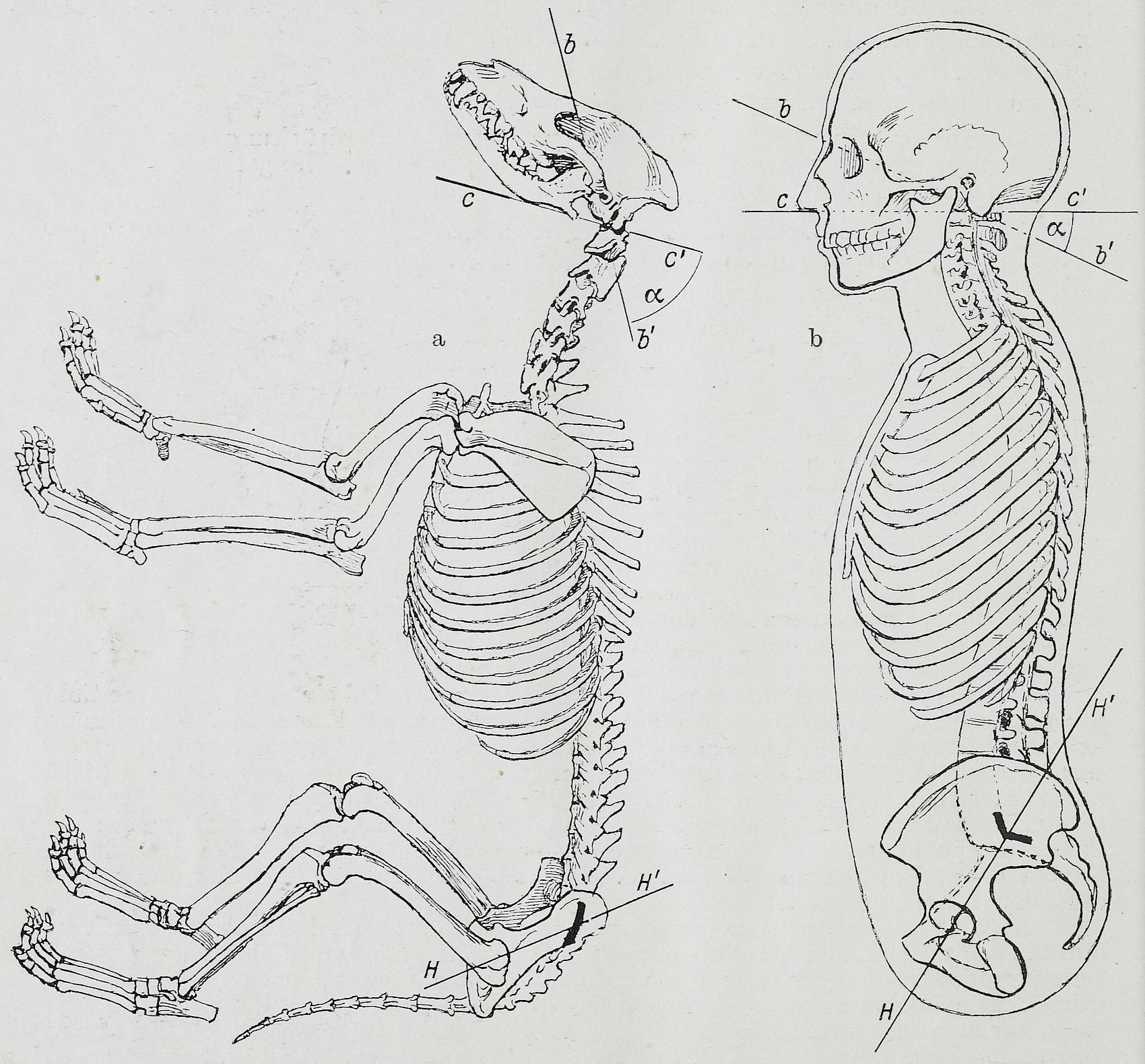 An anatomical illustration from the 1921 German edition of Anatomie des Menschen: ein Lehrbuch für Studierende und Ärzte with latin terminology.